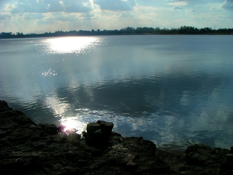 Uruguay River in the Uruguayan town of Bella Unión, Artigas Department.